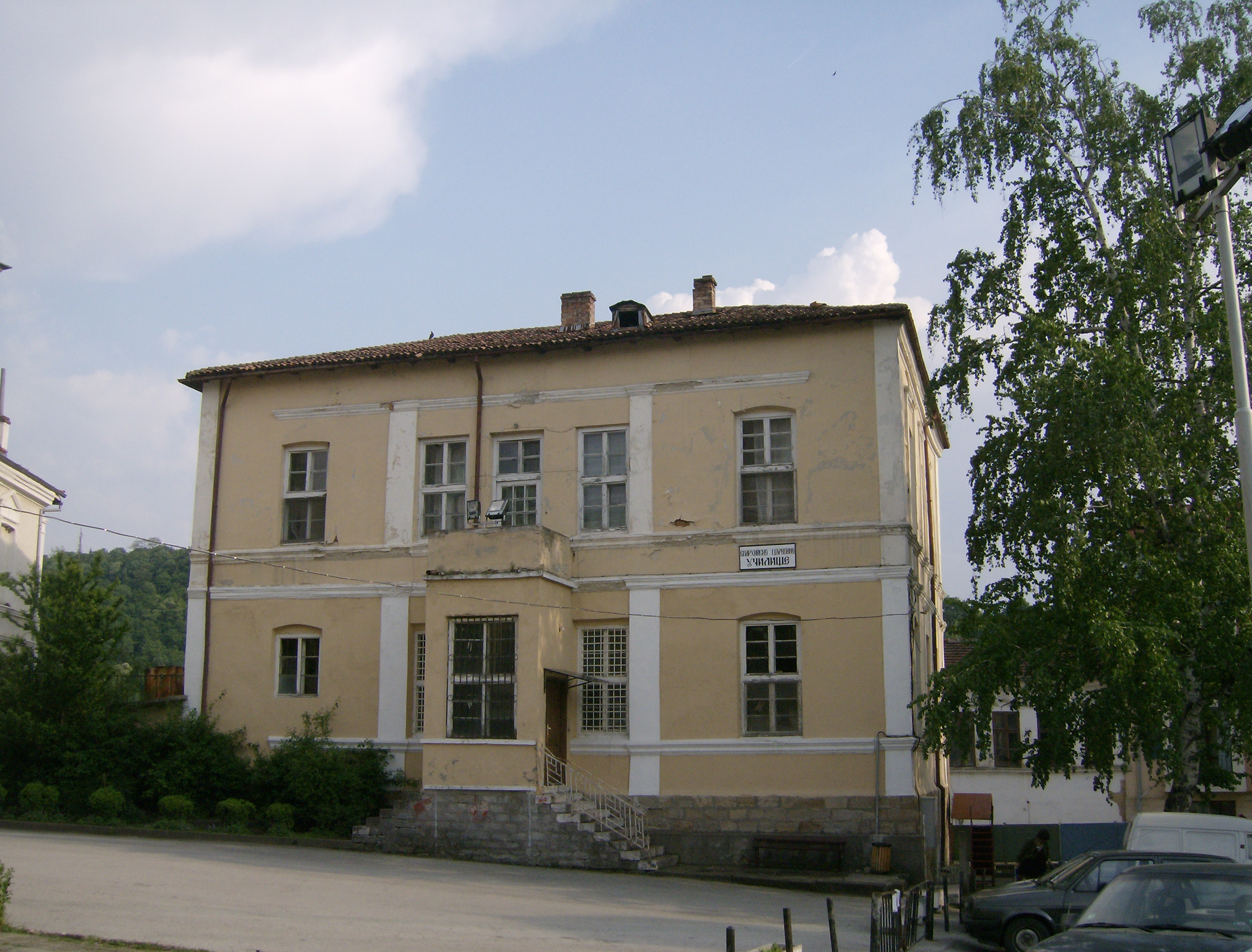 Veliko Tarnovo Eparchy School